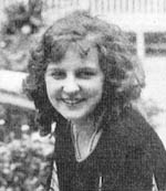 A photo of the first Miss America winner, Margaret Gorman. This was the high-school photo she submitted to the committee which selected her.